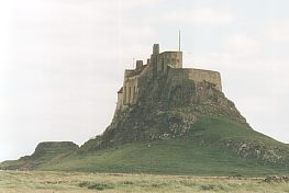 Lindisfarne Castle on Lindisfarne.